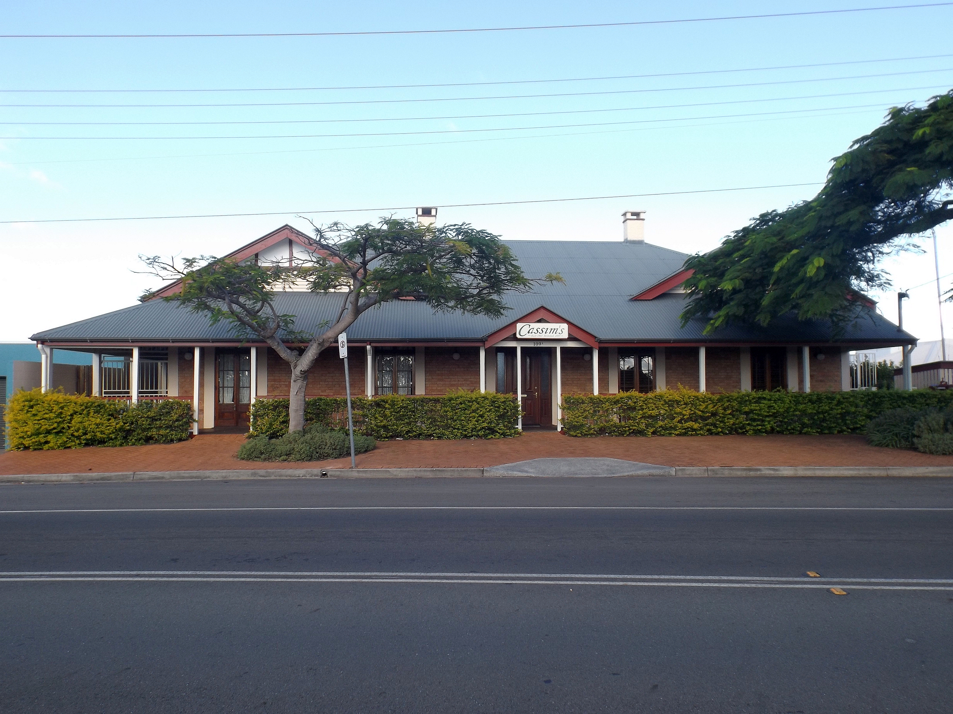 Photo of former Cleveland Hotel at Cleveland, City of Redlands, Queensland, Australia.